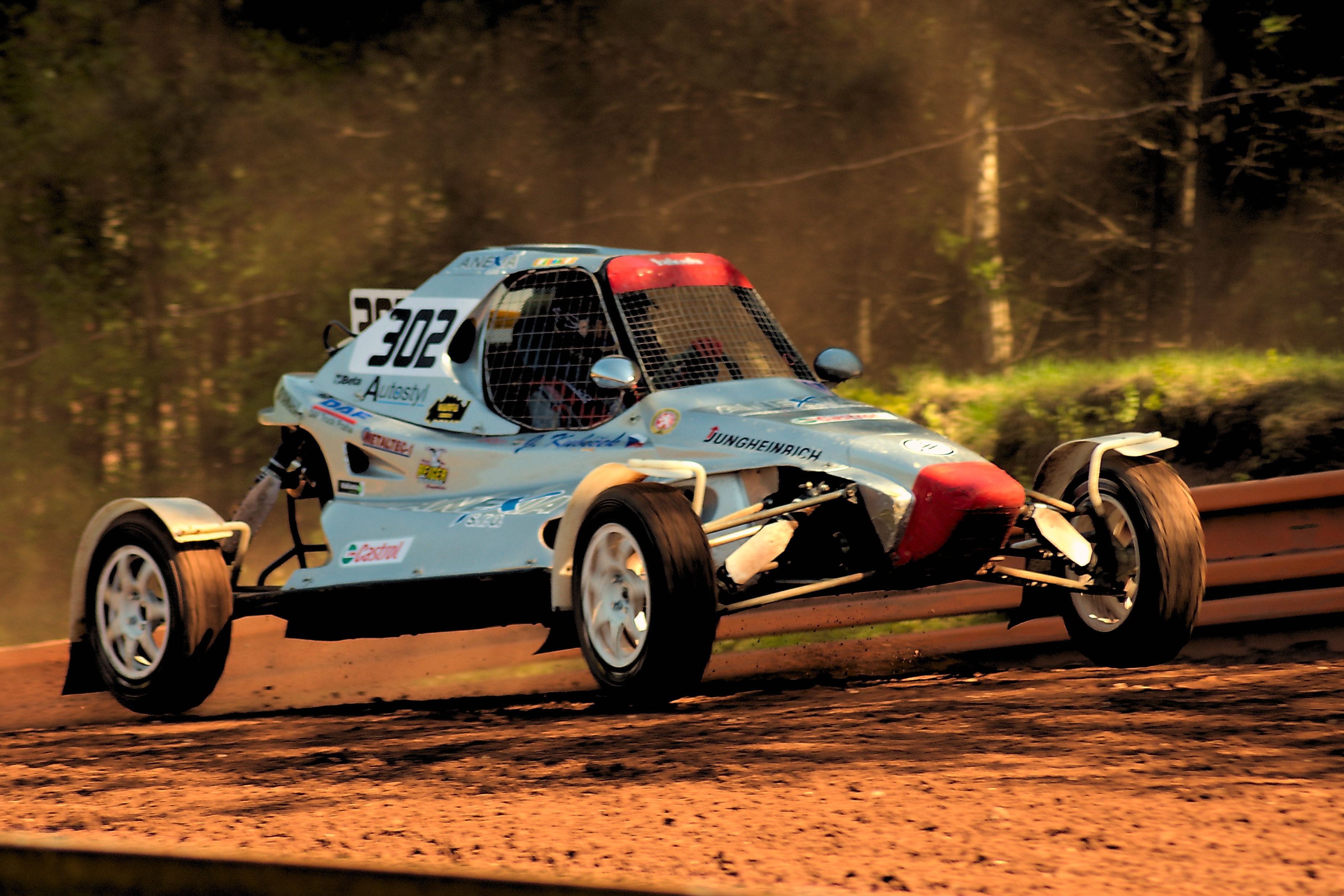 Photo of Autocross 2011 in Štikov,Nová Paka, Czech Republic